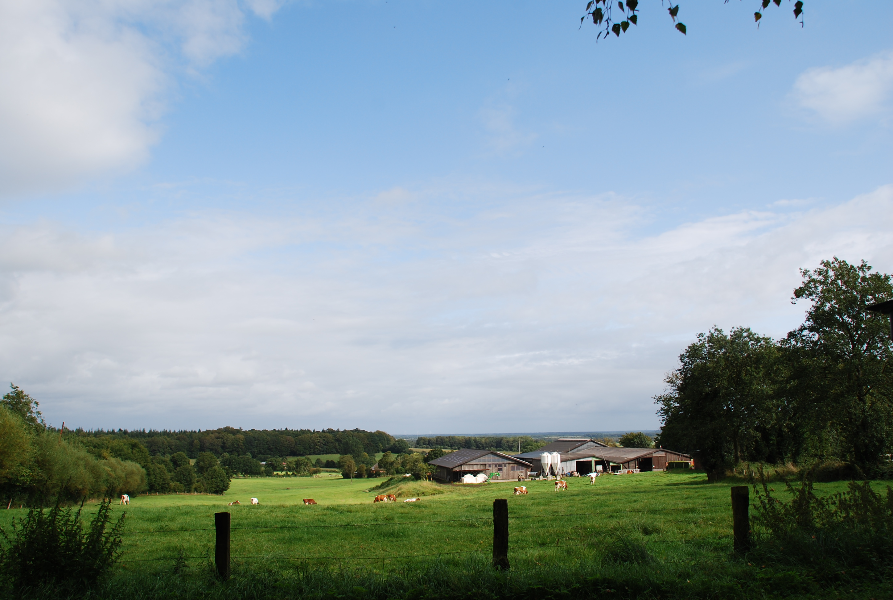 Meadows in Mörel, Schleswig-Holstein, Germany